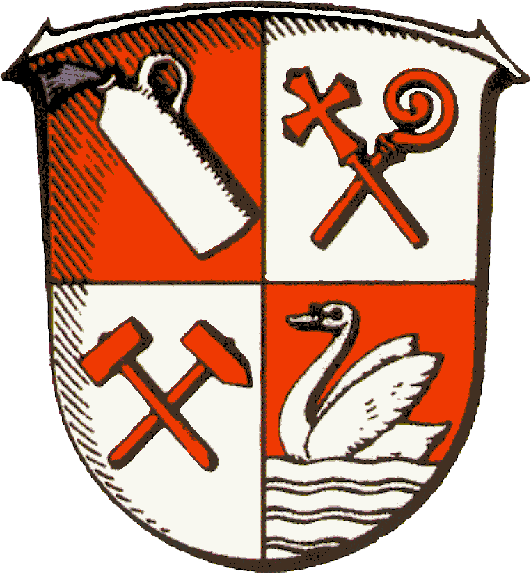 Coat of Arms of Selters (Taunus)